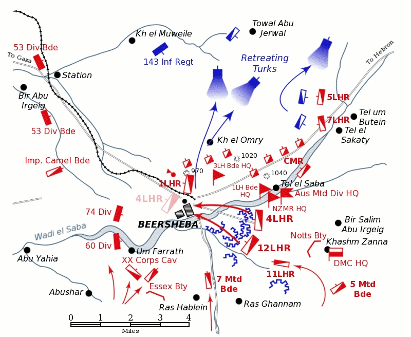 Positions of forces at dusk on October 31, 1917, during the Battle of Beersheba at the time of the charge of the 4th Light Horse Brigade. British forces are shown in red, Turkish forces are shown in blue. The position reached by the regiments of the 4th Light Horse Brigade after the attack is shown in pale red. Note: there is no evidence that the 4th Light Horse Regiment crossed the Wadi Saba during their attack, nor that the 60th Division attacked south of the Wadi Saba. The Australian Mounted Division headquarters is shown where the Anzac Mounted Division headquarters moved to, after the capture of Tel el Saba. Neither the Gullett map nor Bou's map locates the headquarters of Anzac Mounted Division, Australian Mounted Division and Desert Mounted Corps at Kashim Zanna despite numemrous sources placing them there. [Preston 1921 pp. 25–6, Powles 1922 pp. 136–7, Hill 1978 p. 126] See the Battle of Beersheba article for more information.